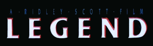 Official Logo of the movie Legend